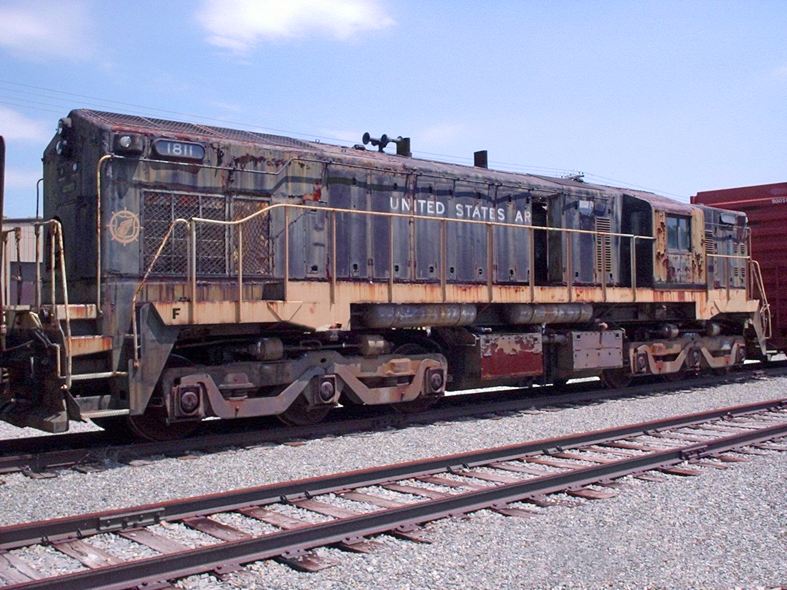 EMD MRS-1. Photo at Fort Eustis, VA. USA 1811 belongs to the US Army Transportation Museum at Fort Eustis, but sits in Hanks Yard waiting for new paint. The museum's limited budget has not yet allowed for a cosmetic restoration.